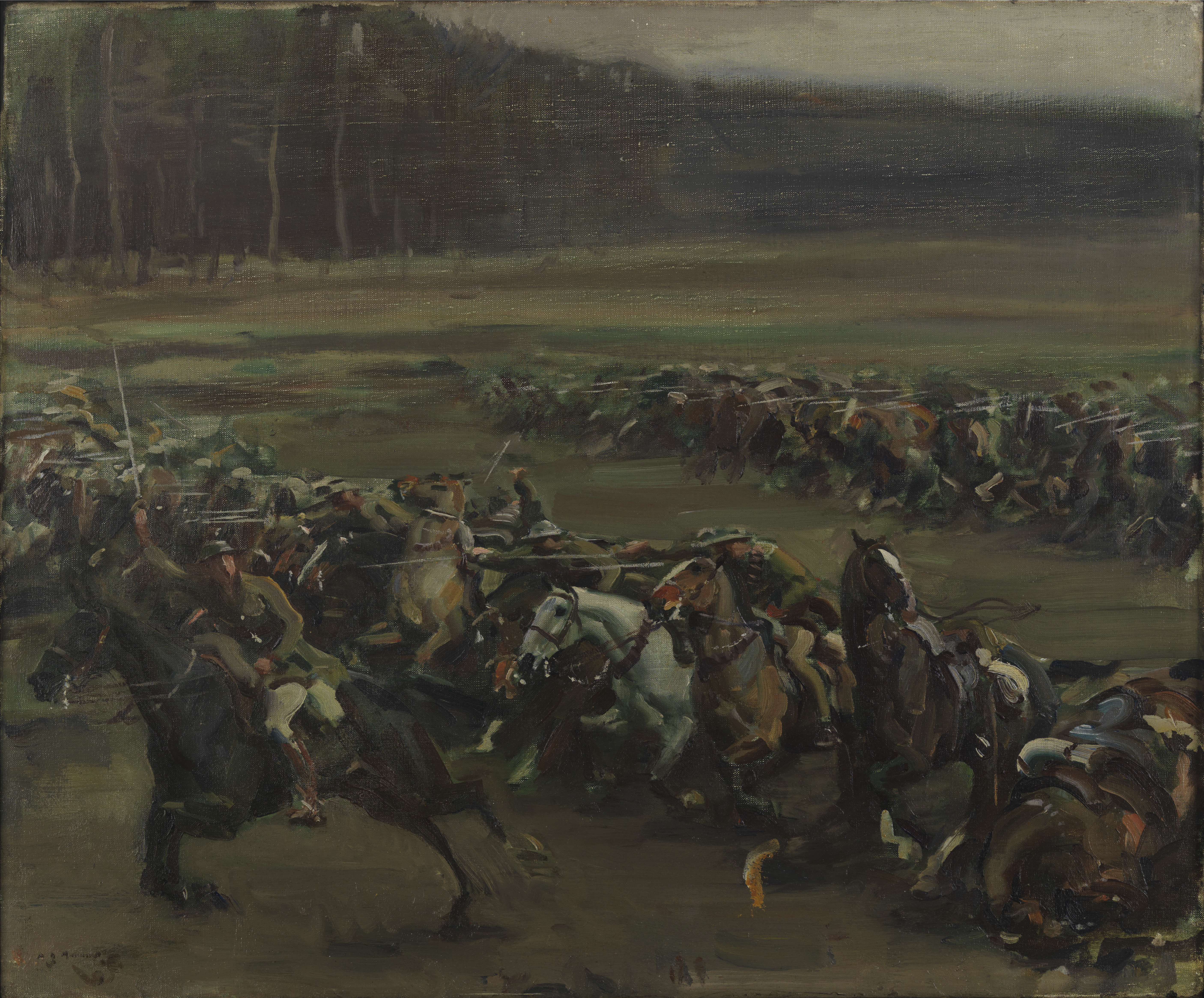 Nearly three-quarters of the Canadian cavalry involved in this attack against German machine-gun positions at Moreuil Wood on 30 March 1918 were killed or wounded. This included Lieutenant G.M. Flowerdew, Lord Strathcona's Horse, who was awarded the Victoria Cross for leading the charge. Unable to break the trench deadlock and of little use at the front, cavalry remained behind the lines for much of the war. During the German offensives of March and April 1918, however, the cavalry played an essential role in the open warfare that temporarily confronted the retreating British forces.